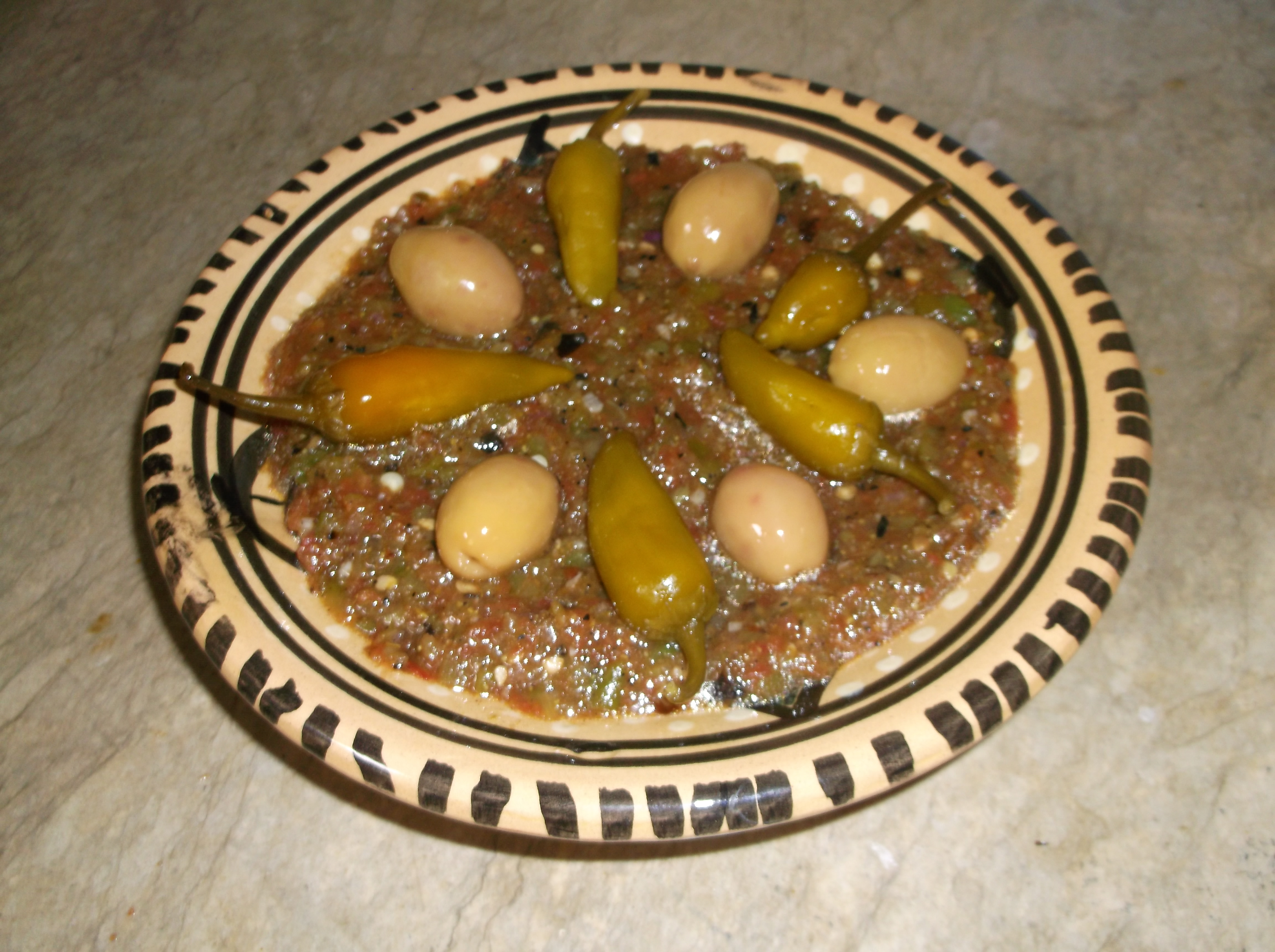 Tunisian grilled salad, cooked with peppers, tomatoes and lots of spices and garlic With pickle This is an image of food from Tunisia